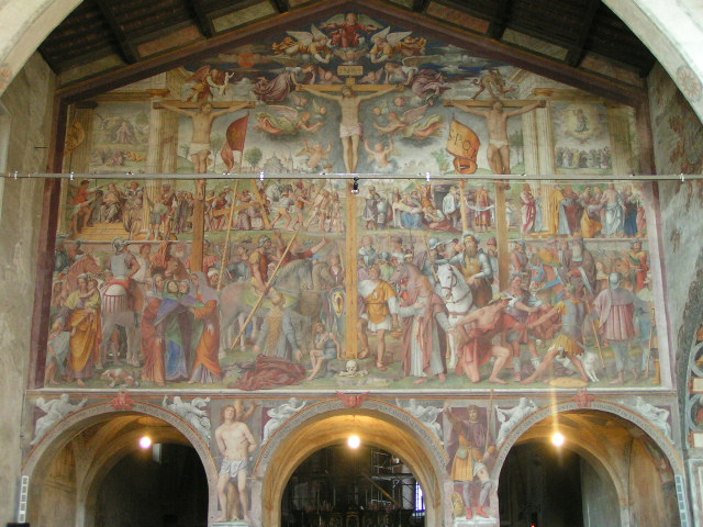 Lugano Church of Santa Maria degli Angioli, frescoes by Bernardino Luini, 1529